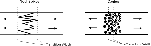 Difference of Transition width on a magnetic medium between regular surface and grained surface.